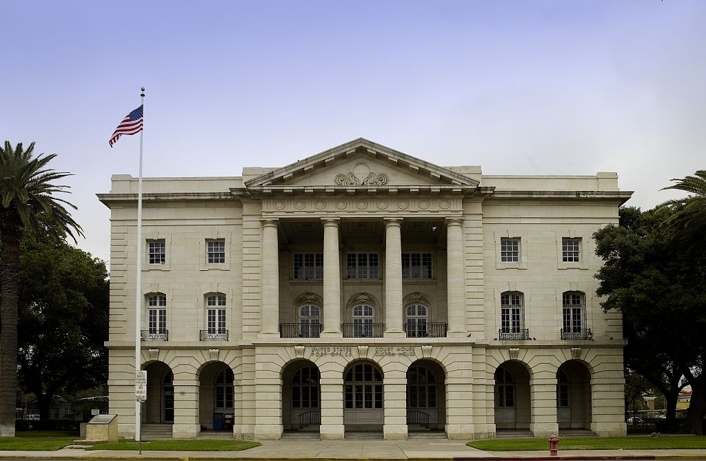 Laredo Post Office, Courthouse, and Customs House, Webb County, Texas. Listed on the National Register of Historic Places. Photo by Carol M. Highsmith.